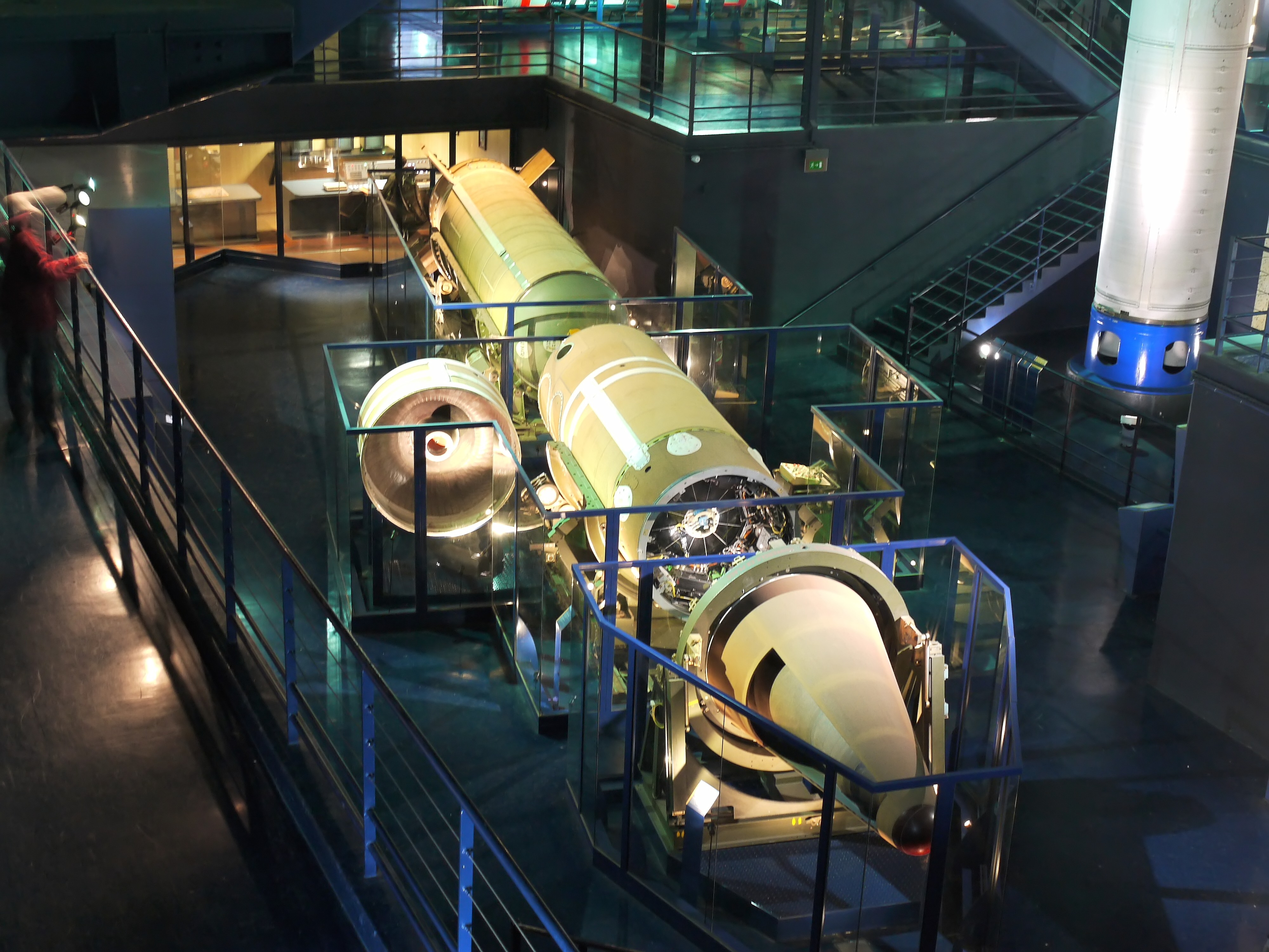 S3 Missile, Museum of Air and Space Paris, Le Bourget (France)